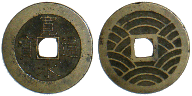 Kanei-tsuho-to4-21nami